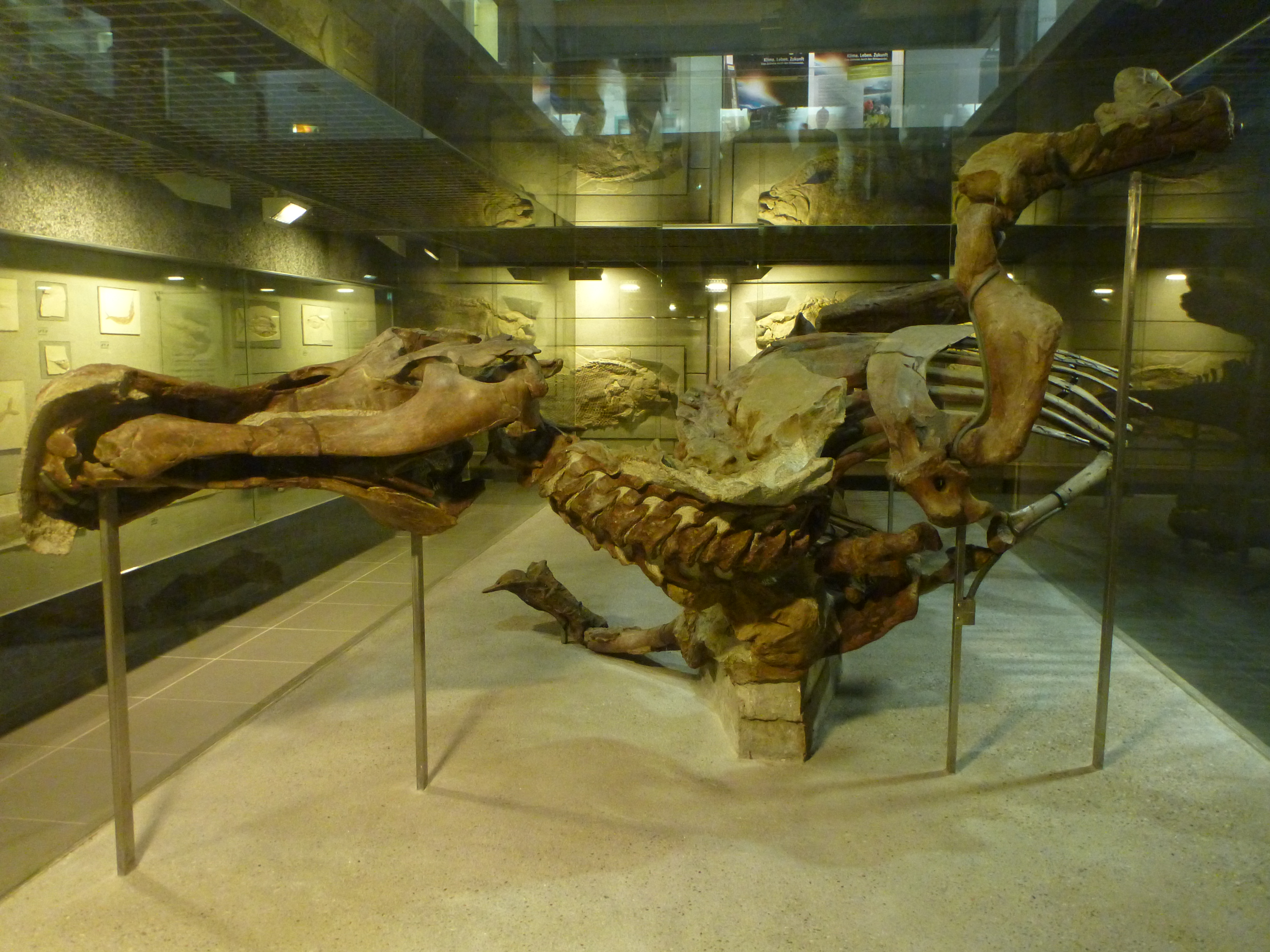 The Edmontosaurus mummy SMF R 4036 on display at the Senckenberg Museum, Frankfurt, Germany.